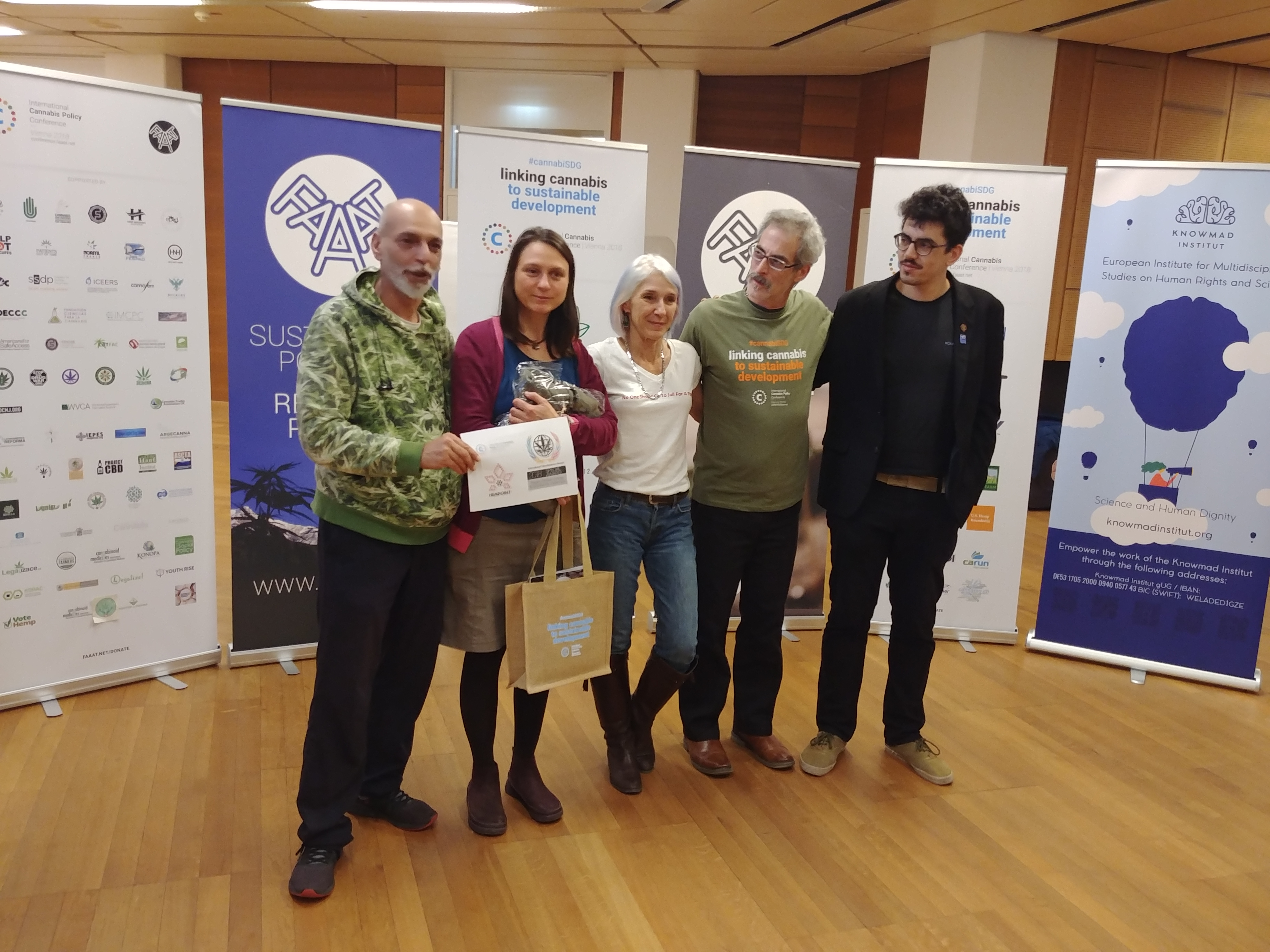 FAAAT team and organizers of the International Cannabis Policy Conference 2018: Farid Ghehiouèche, Hanka Gabrielová, Amy Case King, Michael Krawitz and Kenzi Riboulet-Zemouli.